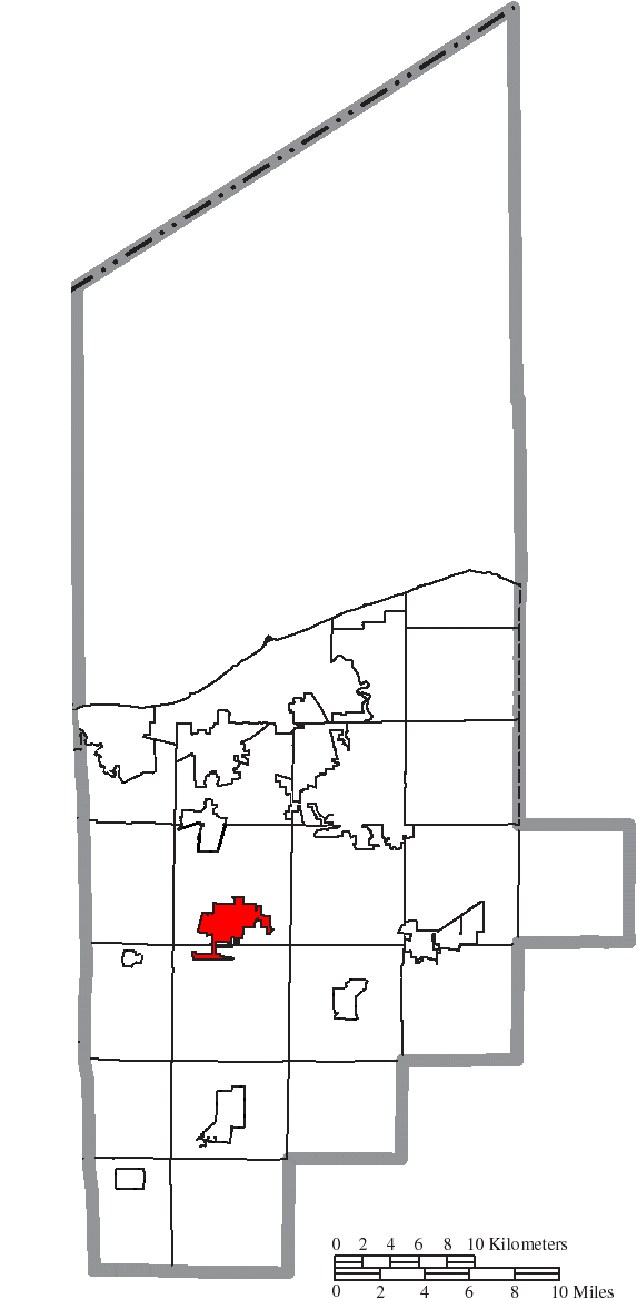 Map of the municipal and township boundaries of Lorain County, Ohio, United States, as of the 2000 census, with the location of Oberlin highlighted. Township borders are shown only in unincorporated areas in order to differentiate incorporated and unincorporated areas more clearly.